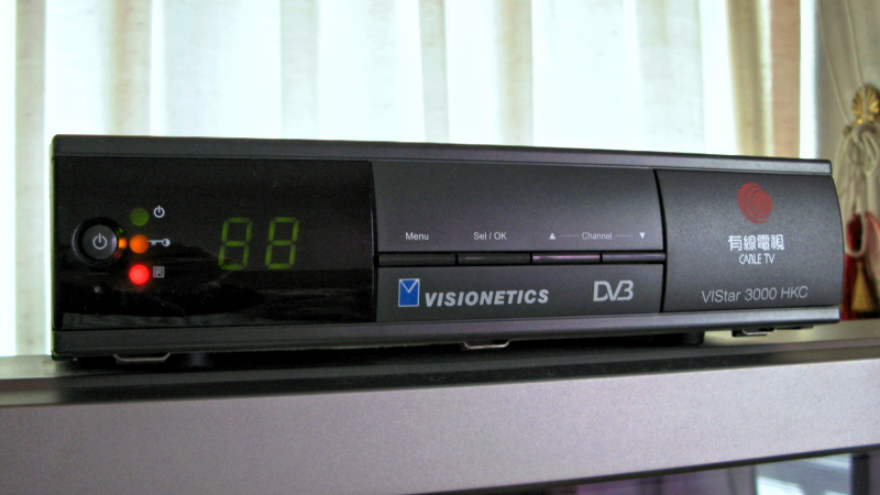 HK Cable TV Settop Box 有線電視解碼器